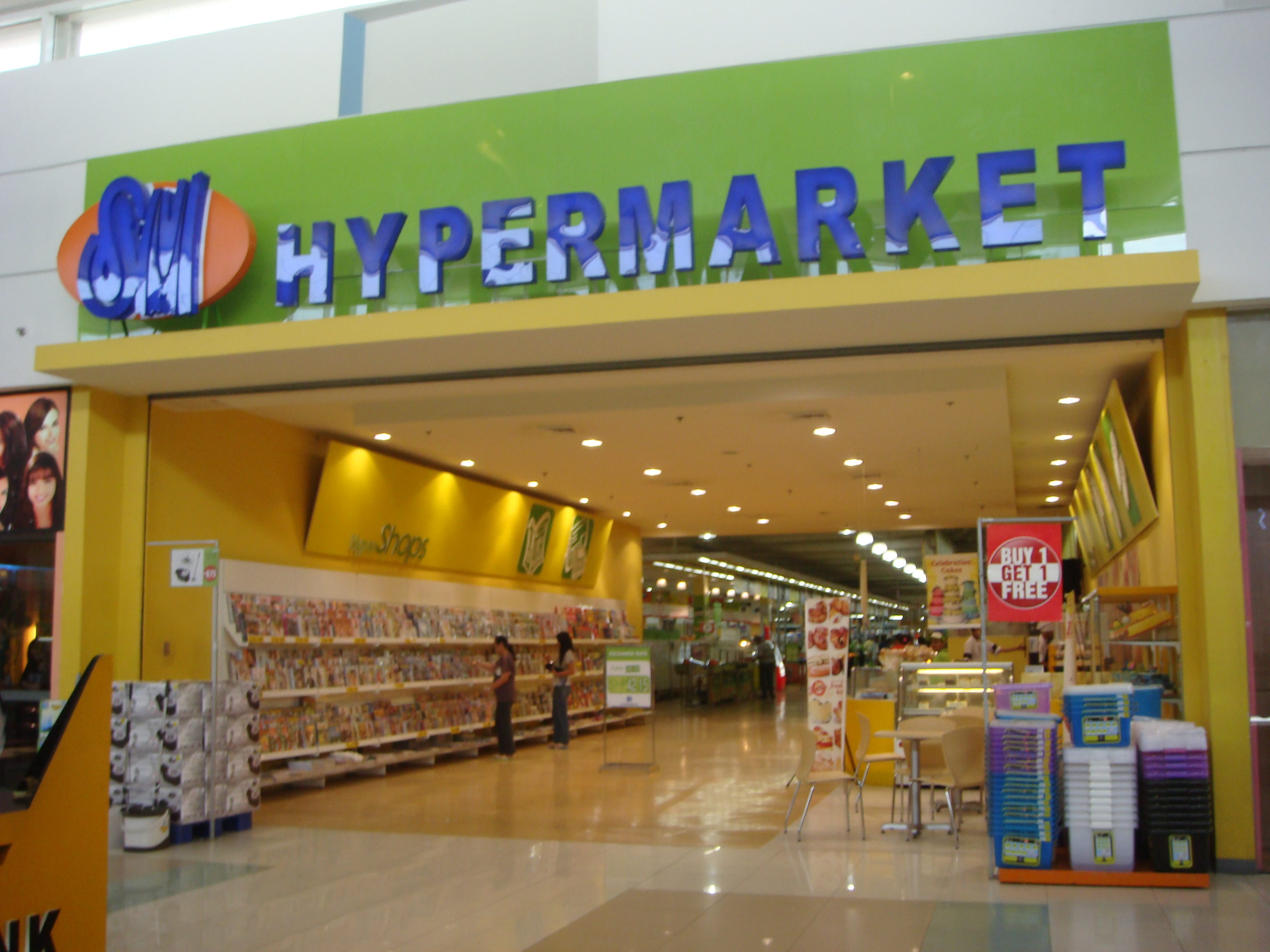 SM Hypermart Baliuag